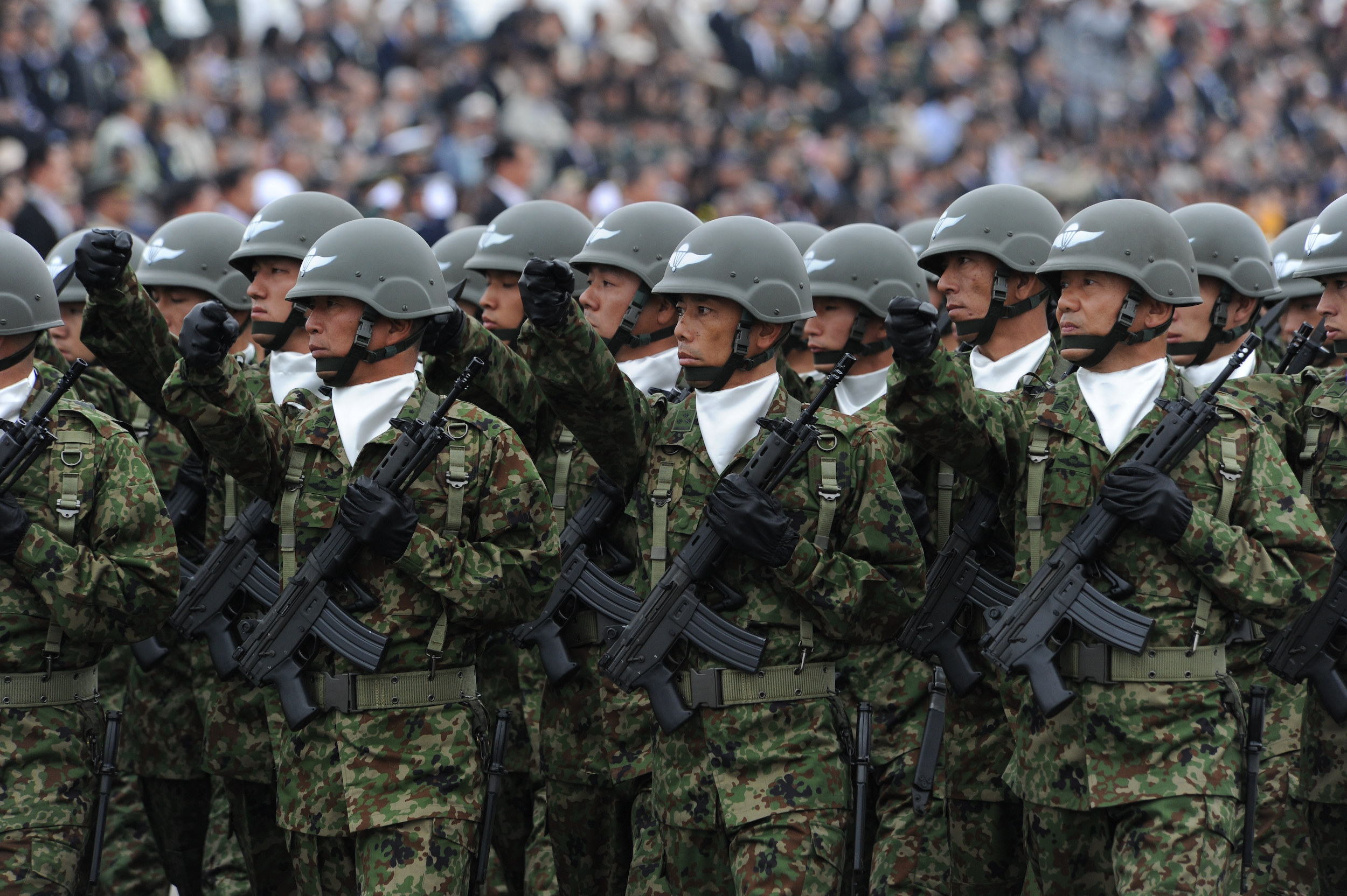 平成22年度観閲式(H22 Parade of Self-Defense Force)